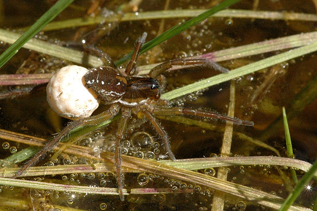 female Pirata piraticus with egg sac, from Commanster, Belgian High Ardennes .